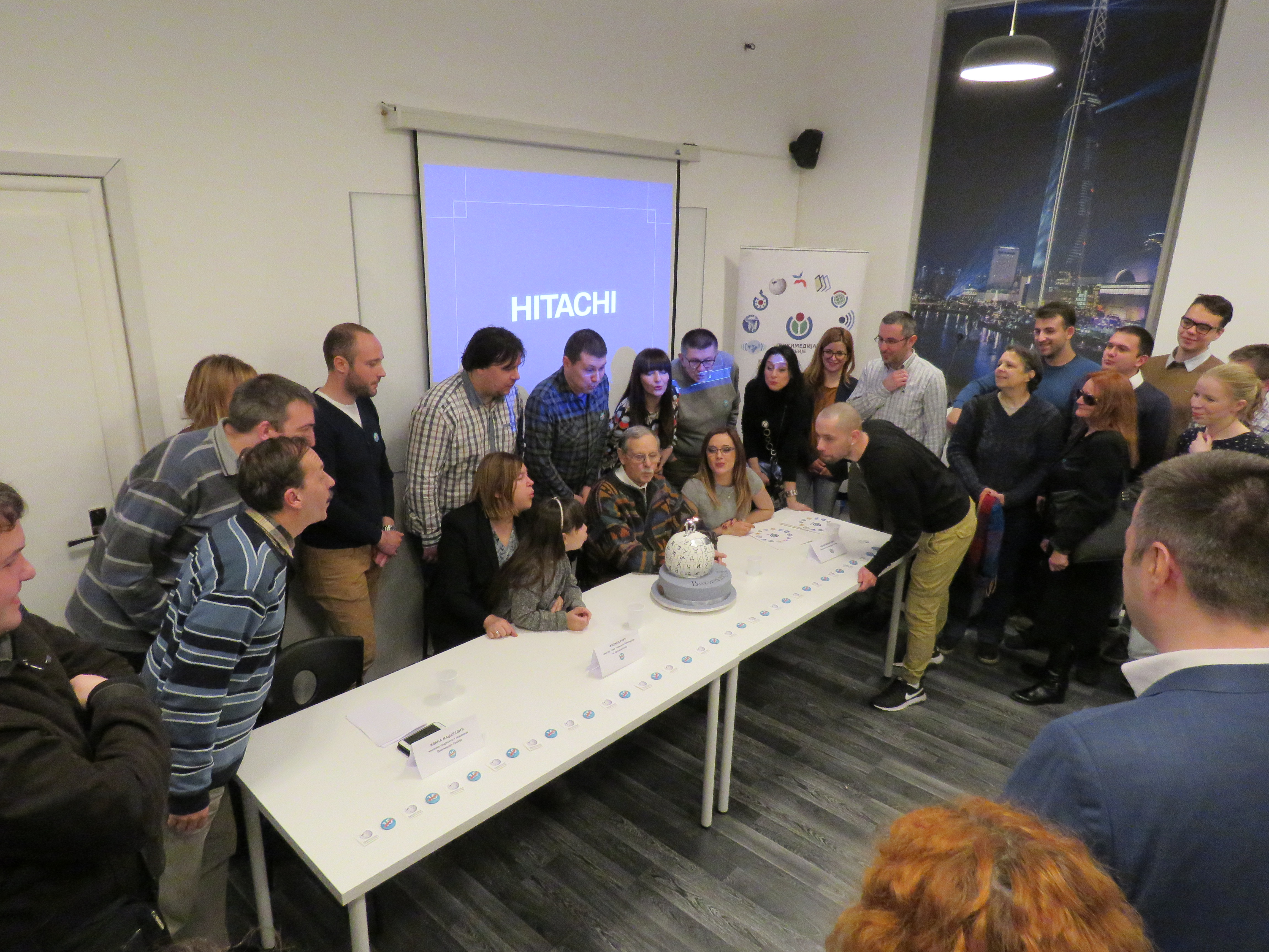 15th Birthday of Serbian Wikipedia, blowing the candles